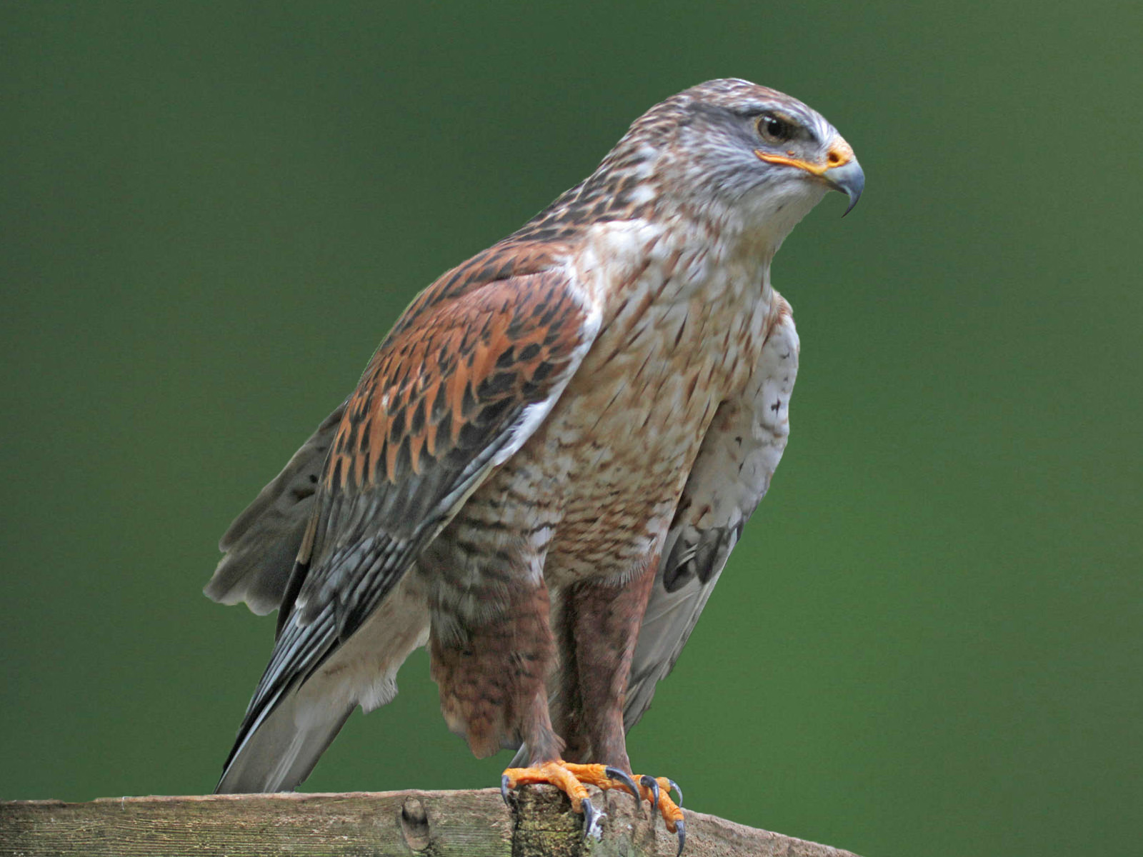 Ferruginous Hawk (Buteo regalis) - Flamingo Gardens, Davie, Florida. The background of this photo was changed via Photoshop.